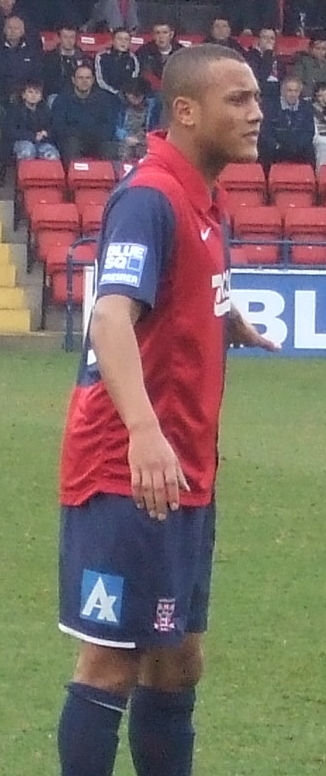 Adam Smith playing for York City against Weymouth at Bootham Crescent, York on 28 February 2009